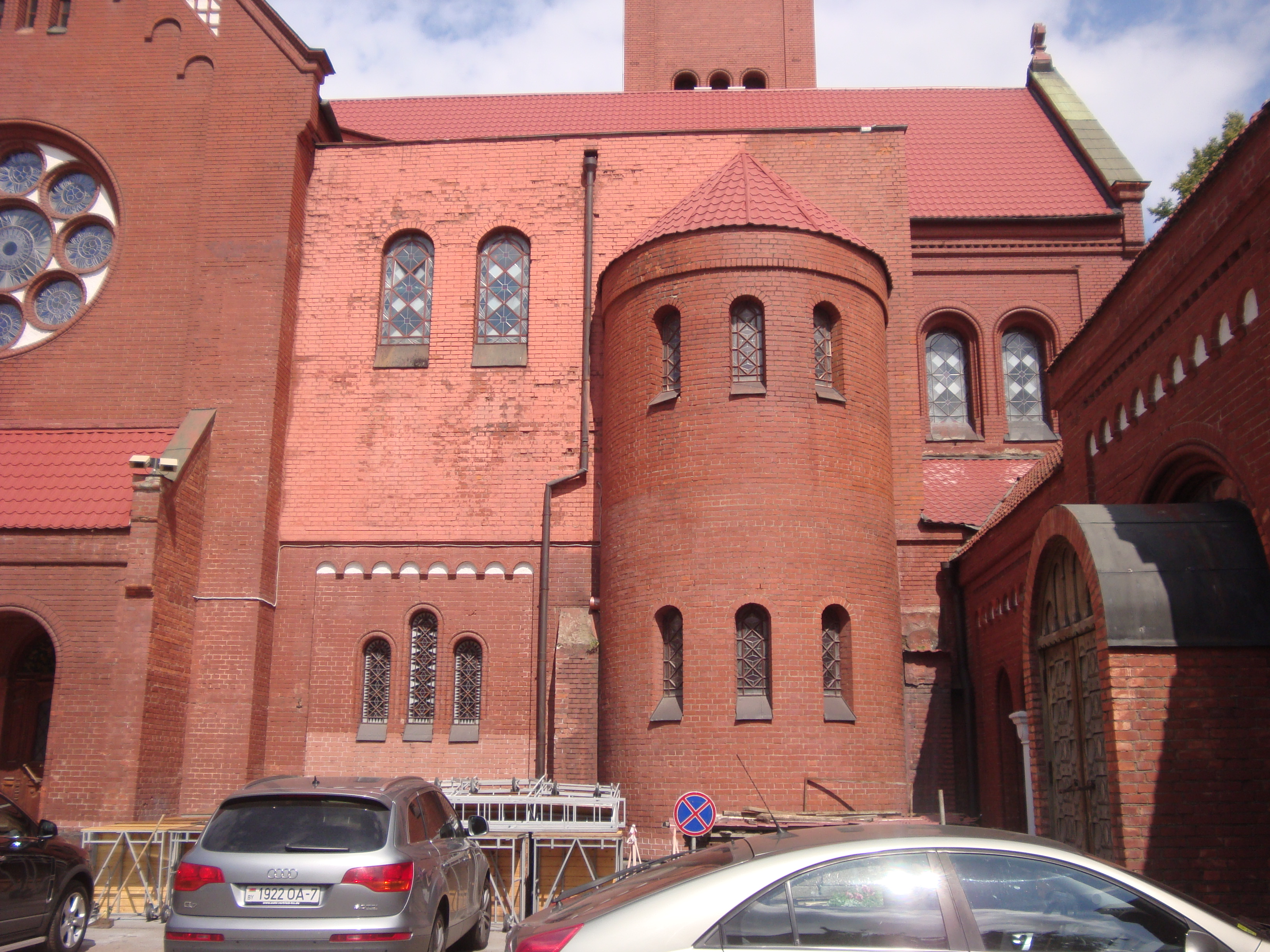 Apse of Church of Saints Simon and Helena (Minsk, Belarus), 2013 AD